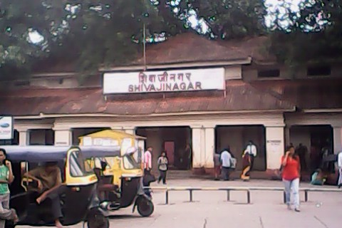 Shivajingar, Pune, India